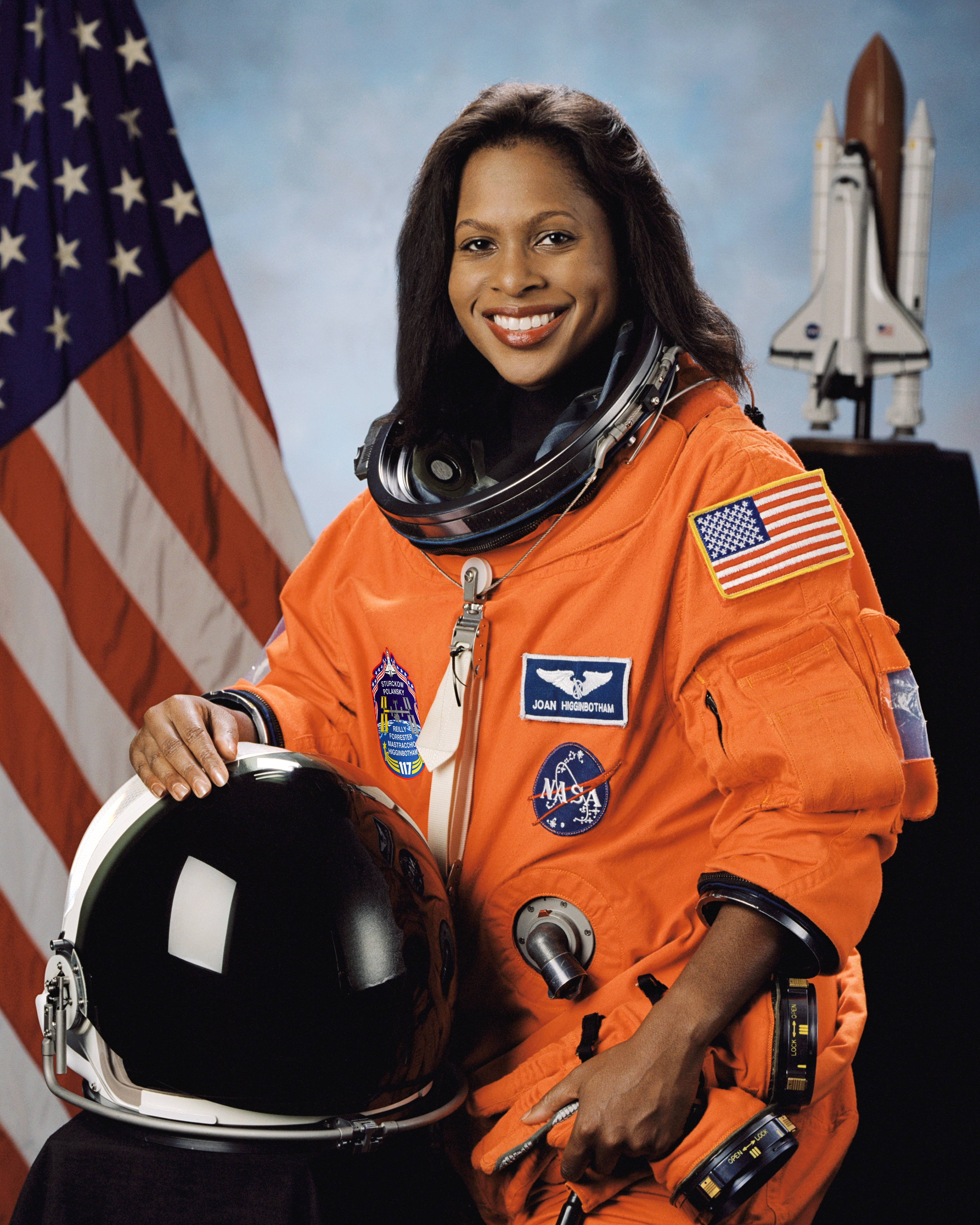 portrait astronaut Joan Higginbotham